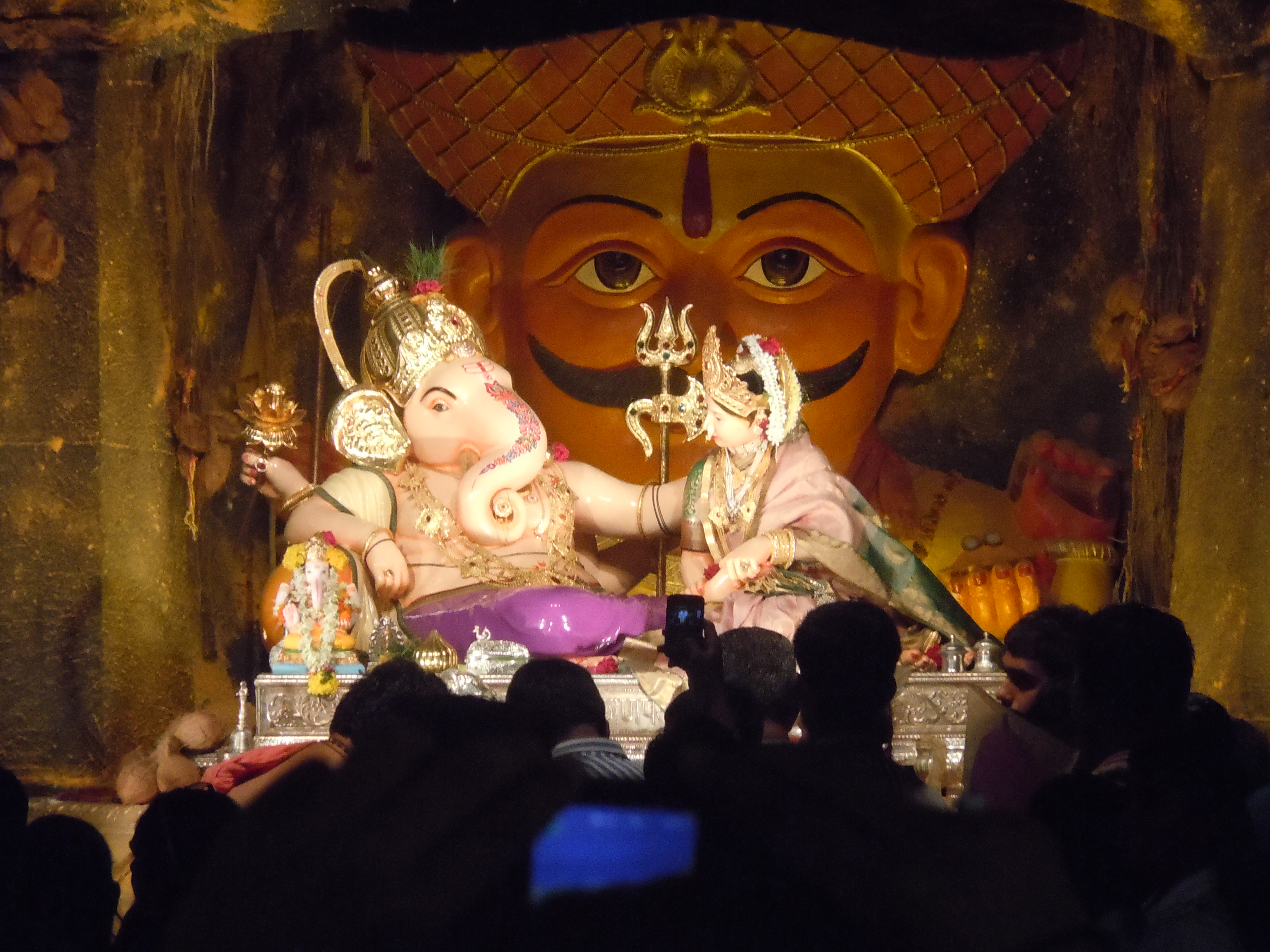 Pune,India